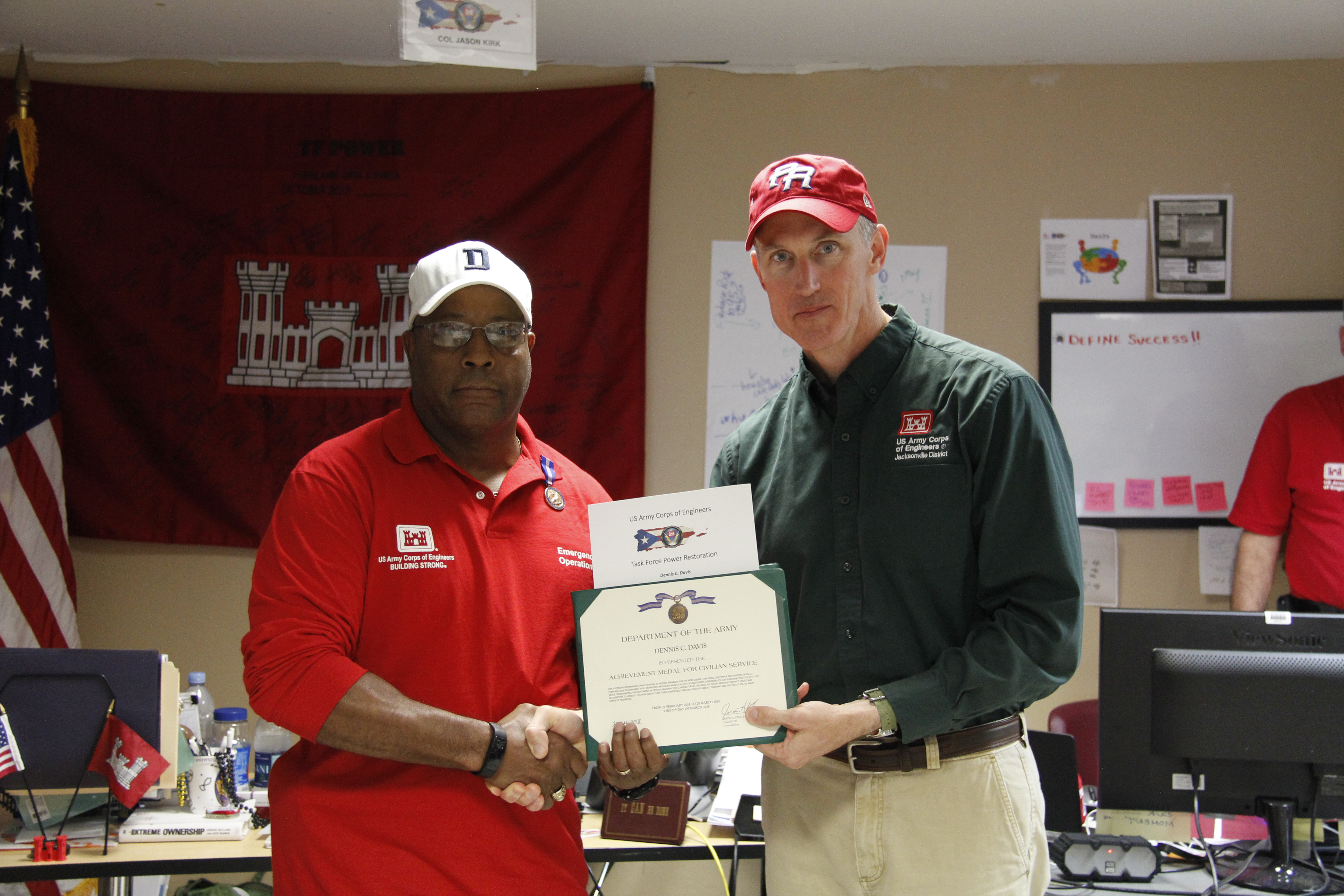 Dennis C. Davis receives Achievement Medal for Civilian Service for his work during Puerto Rico Power Restoration Task Force after Hurricane Maria (2017)